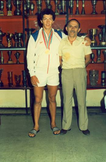 Ramo Kolenović‡, I took the photo, August 28th 1986, for Ramo Kolenović article